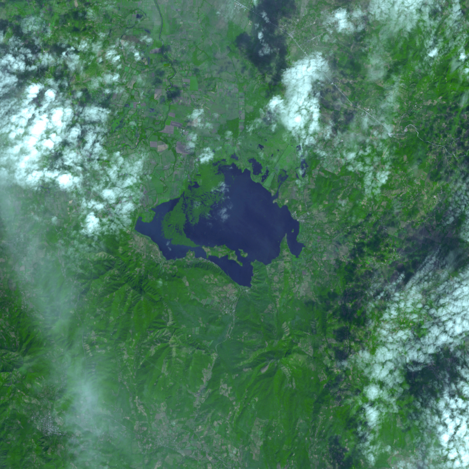 Image of Lake Olomega in El Salvador. In the Public Domain as a production of the United States Government (NASA).